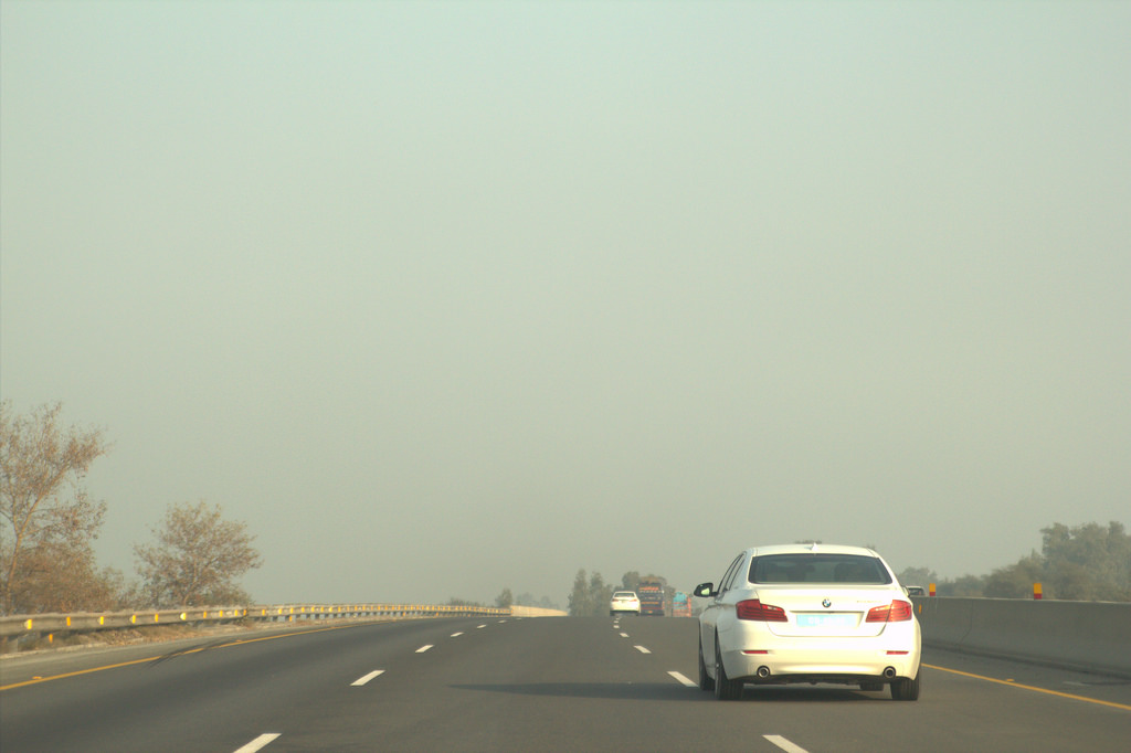 Motorway M2, Lahore-Islamabad